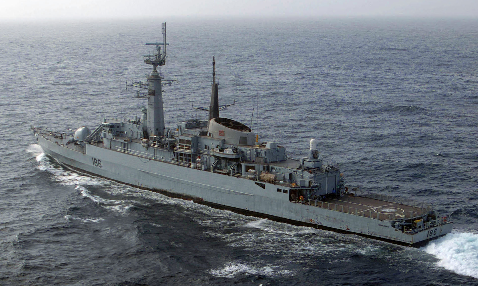 Port side view of the Pakistan Navy Tariq Class Frigate PNS (Pakistani Naval ship) SHAHJAHAN (DDG 186), underway participating in Operation INSPIRED SIREN. INSPIRED SIREN is a bilateral joint exercise between the United States and Pakistan Navies. The US and Pakistan are conducting training in Maritime Security Operations (MSO), air defense, anti- submarine warfare, surface warfare, mine counter measures, electronic warfare, replenishment at sea and command and control.